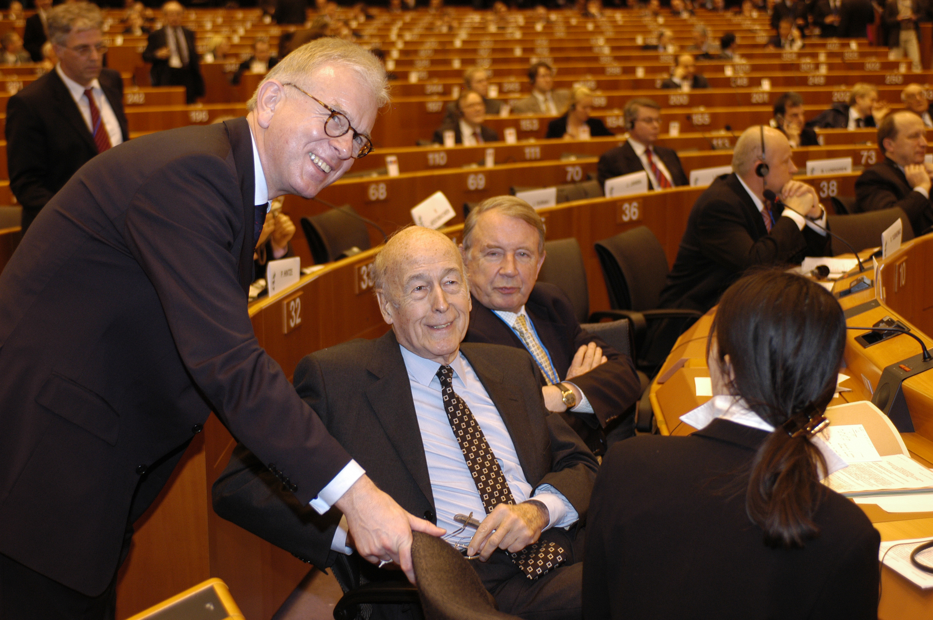 EPP Congress Brussels 4-5 February 2004